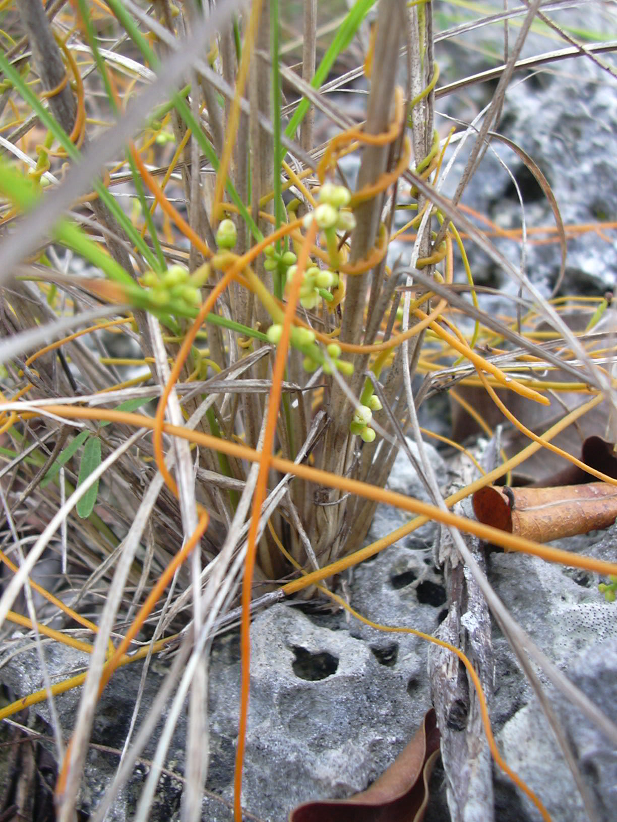 Cassytha filiformis (habit). Location: Florida, Deering Park